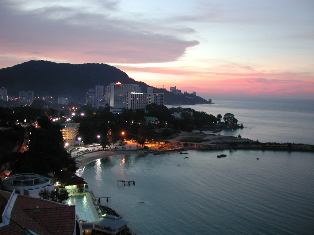 From friend Mike's flat looking northward towards Batu Ferrenghi at sunset. Somewhere around early January 2001tanjung bunga